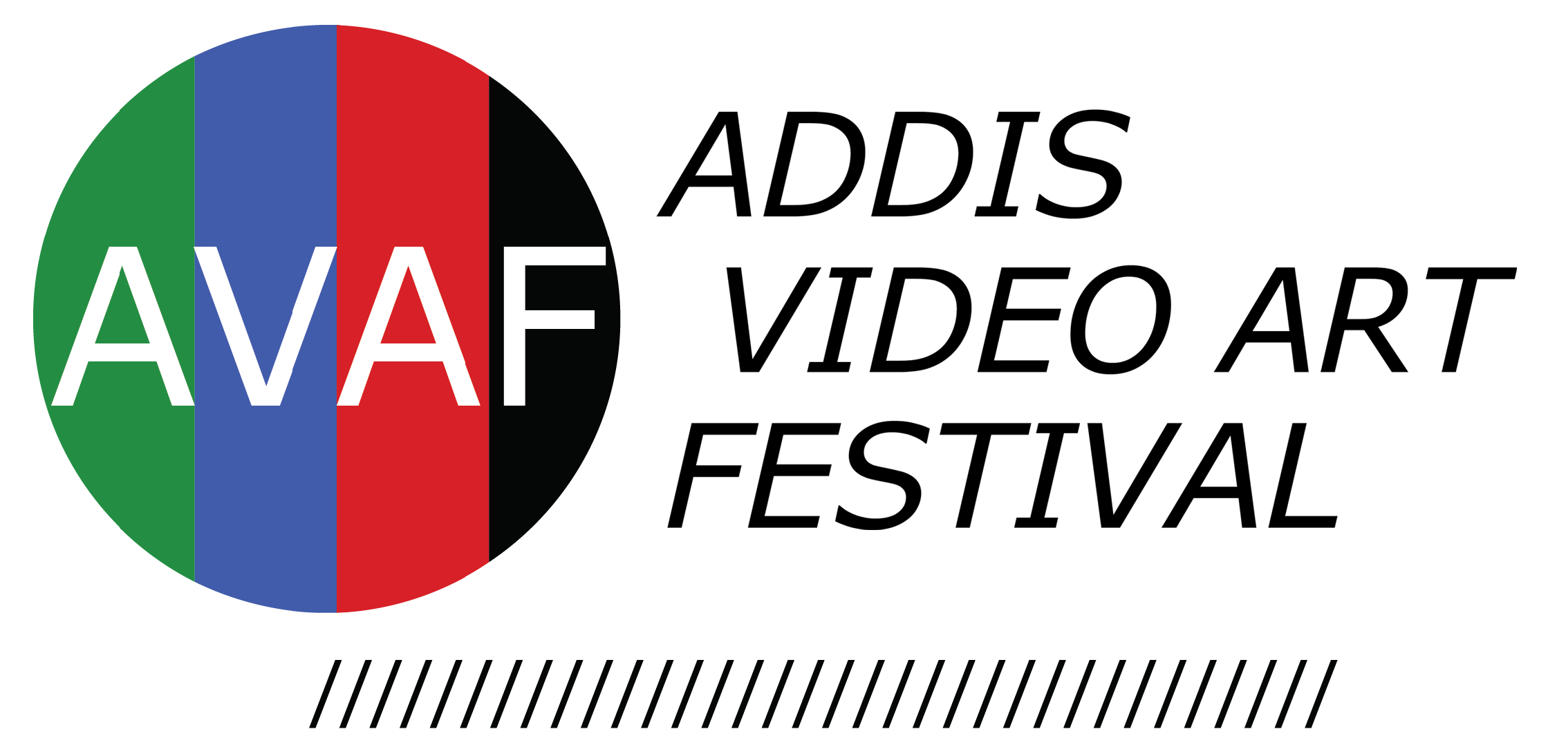 AVAF LOGO